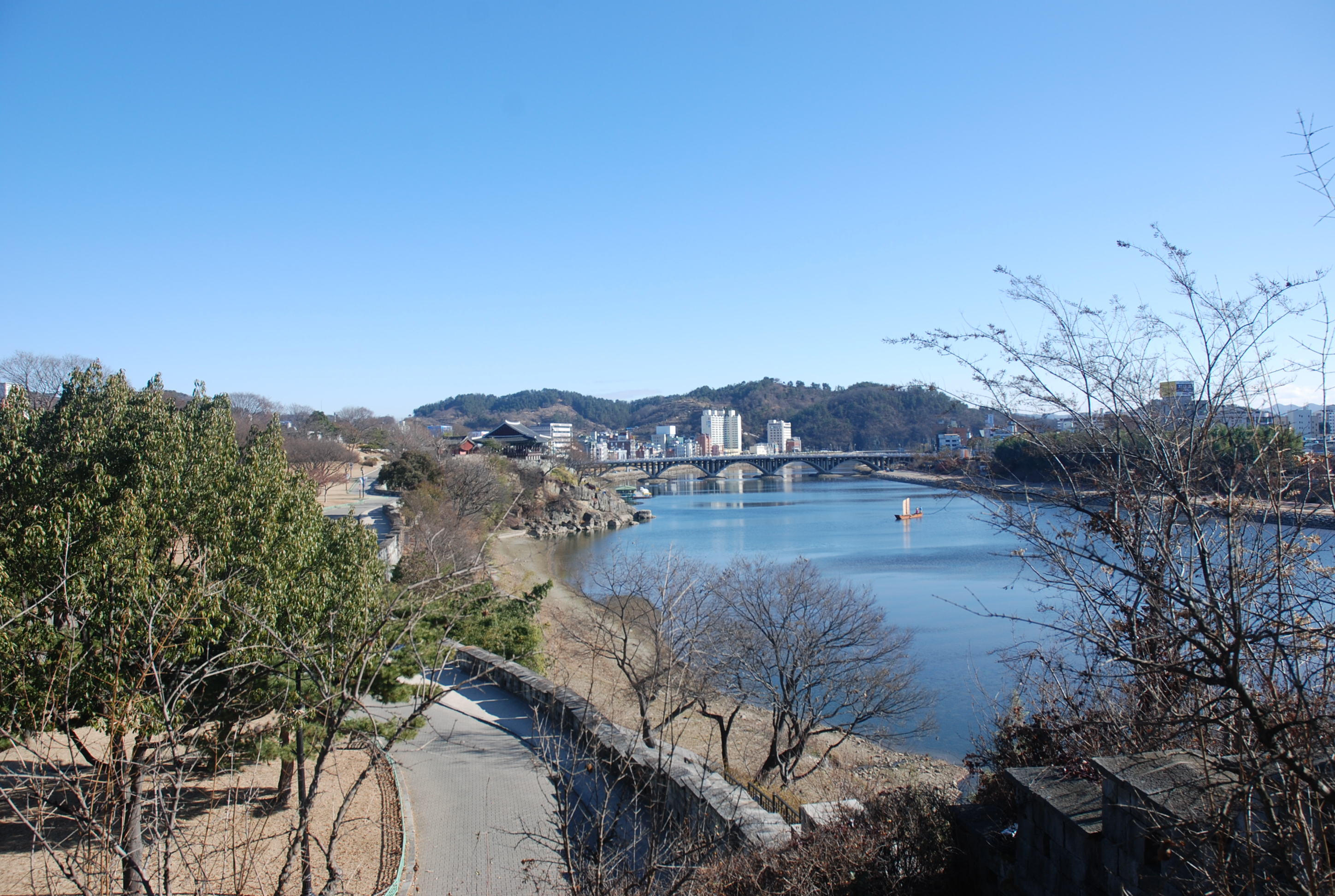 Jinju Nam river and the Jinju Castle